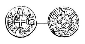 Denier of Alfonso Jordan, count of Toulouse minted in Narbonne when he occupied the city (ca 1134/1139-1143) during the minority of Ermengarde, viscountess of Narbonne